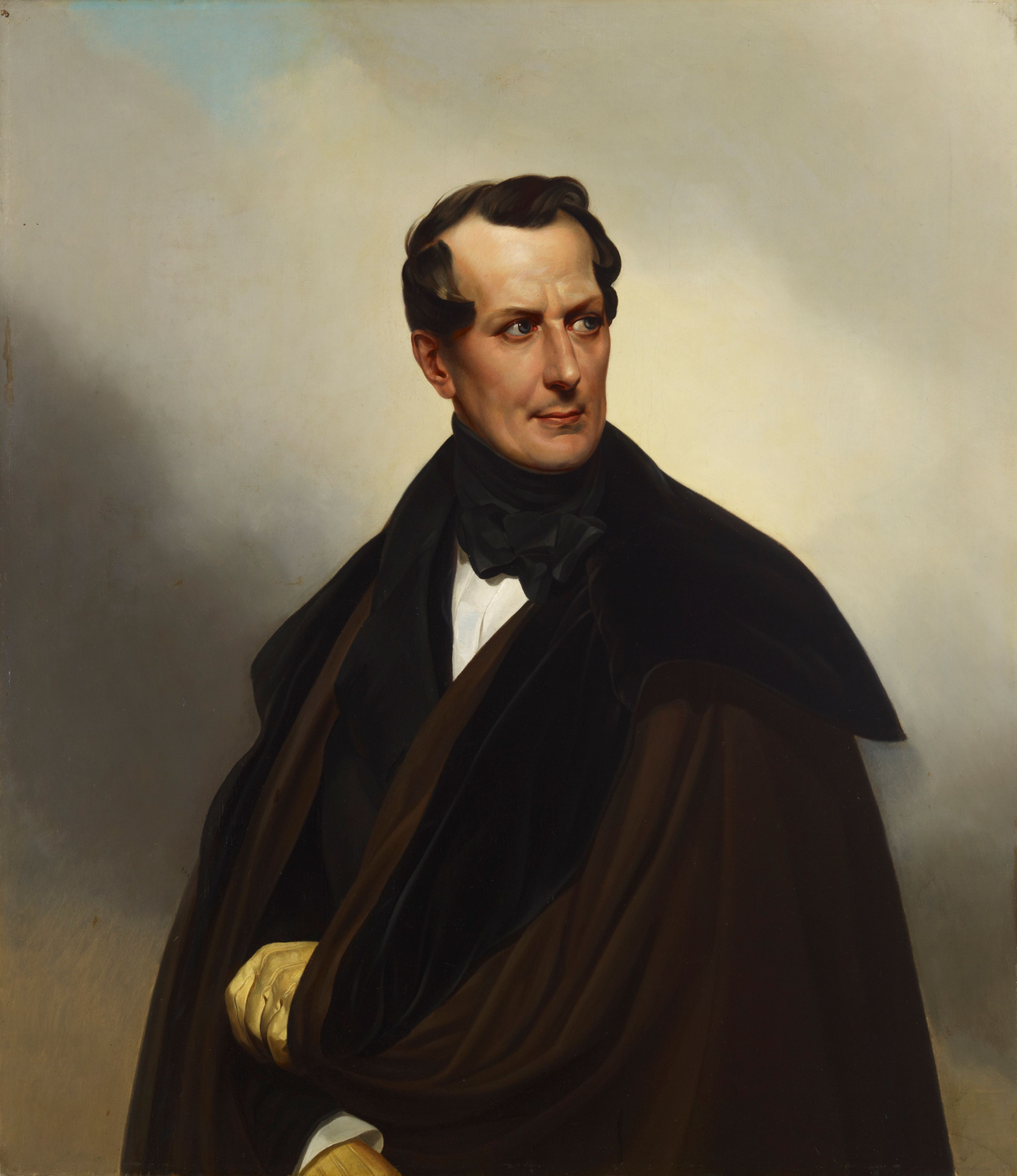 V. A. Musin-Pushkin